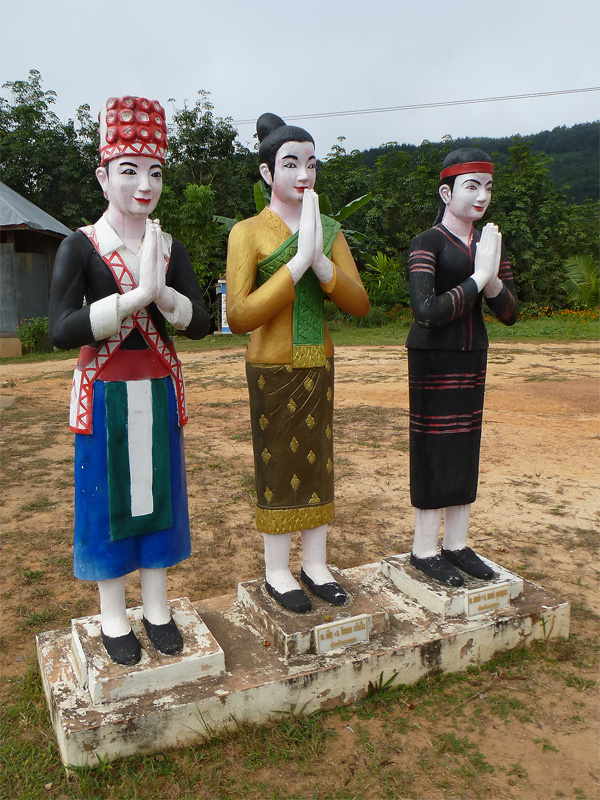 That Luang Namtha, Luang Namtha, Laos. Images from left to right, of the Lao Soung, Lao Loum, Lao Theung.